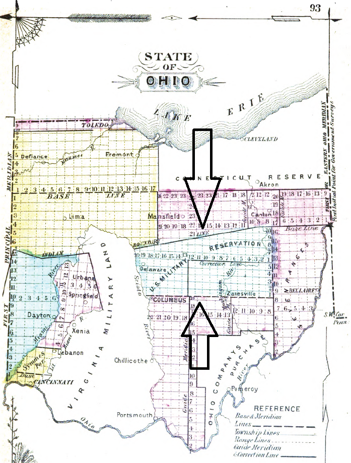 shows United States Military District in Ohio